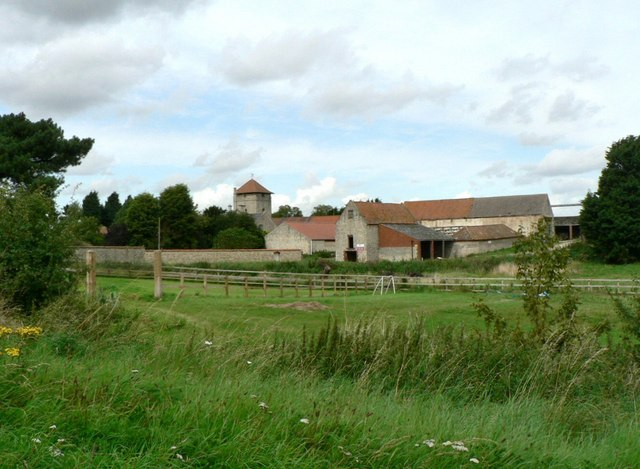 Temple Farm at Temple Bruer The restored tower of the Templar church rises above the farm buildings.